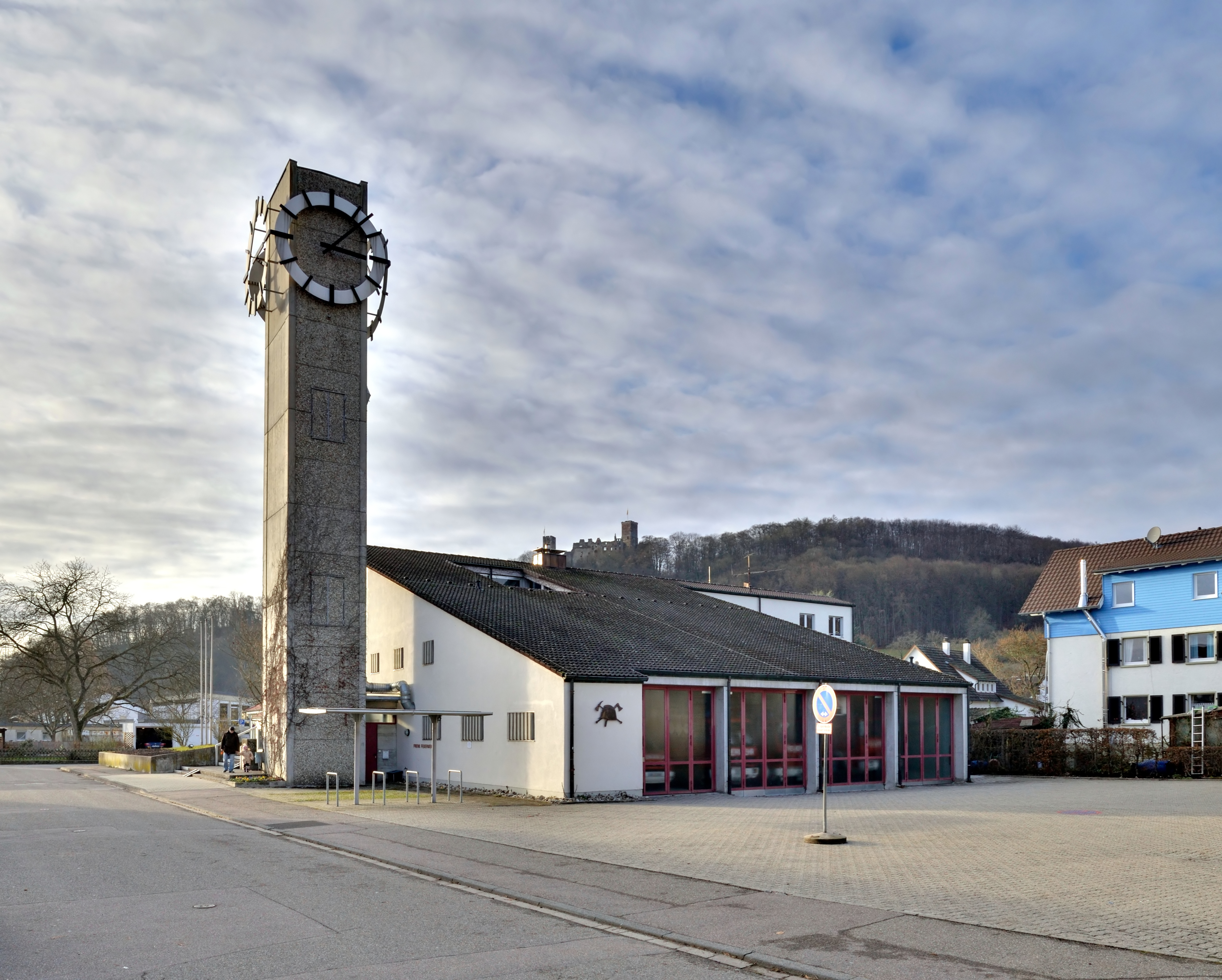 Lörrach-Haagen: Fire station